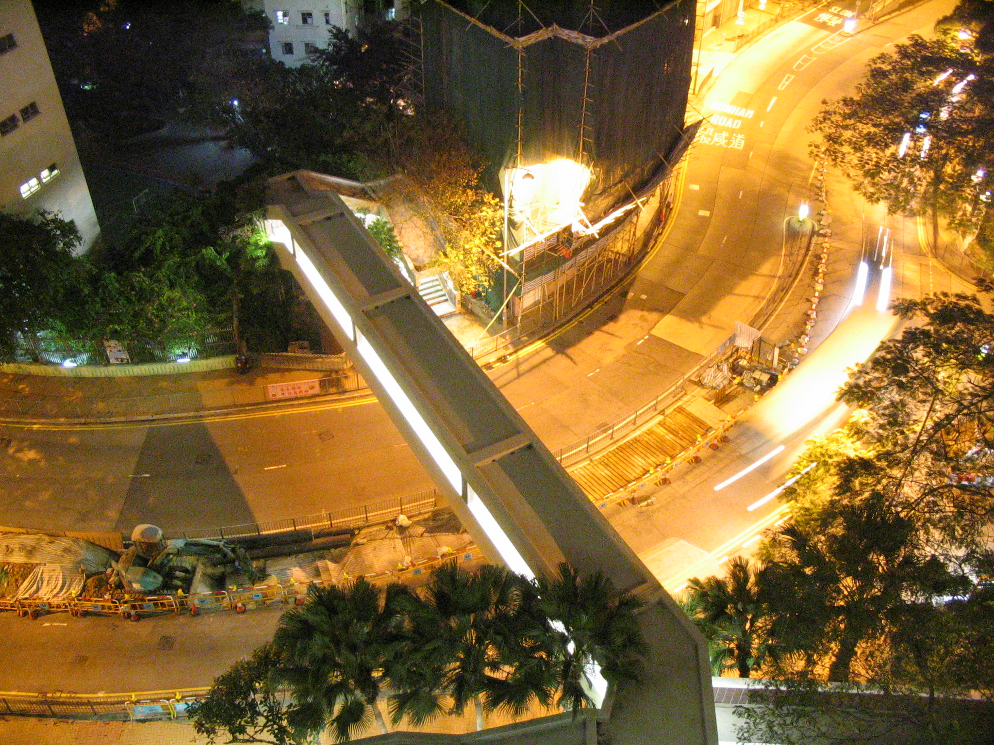 Photo of Pok Fu Lam Road